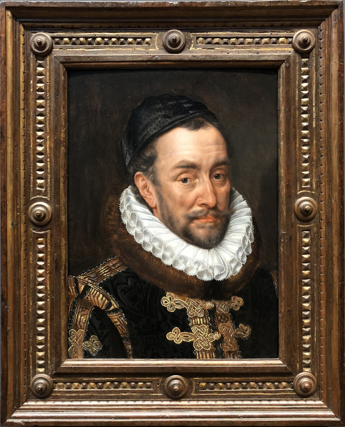 Portrait of William I, the Silent, Prince of Orange. Bust, facing right. Several versions of this portrait exist, three of which are believed to be authentic. Of these the version at the Museo Thyssen-Bornemisza is dated 1579.